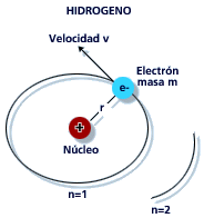 Proyecto de Innovación Docente 2013 de la ETSI de Telecomunicación UPM; coordinador P. Mareca, subido por Alvaro Nieto